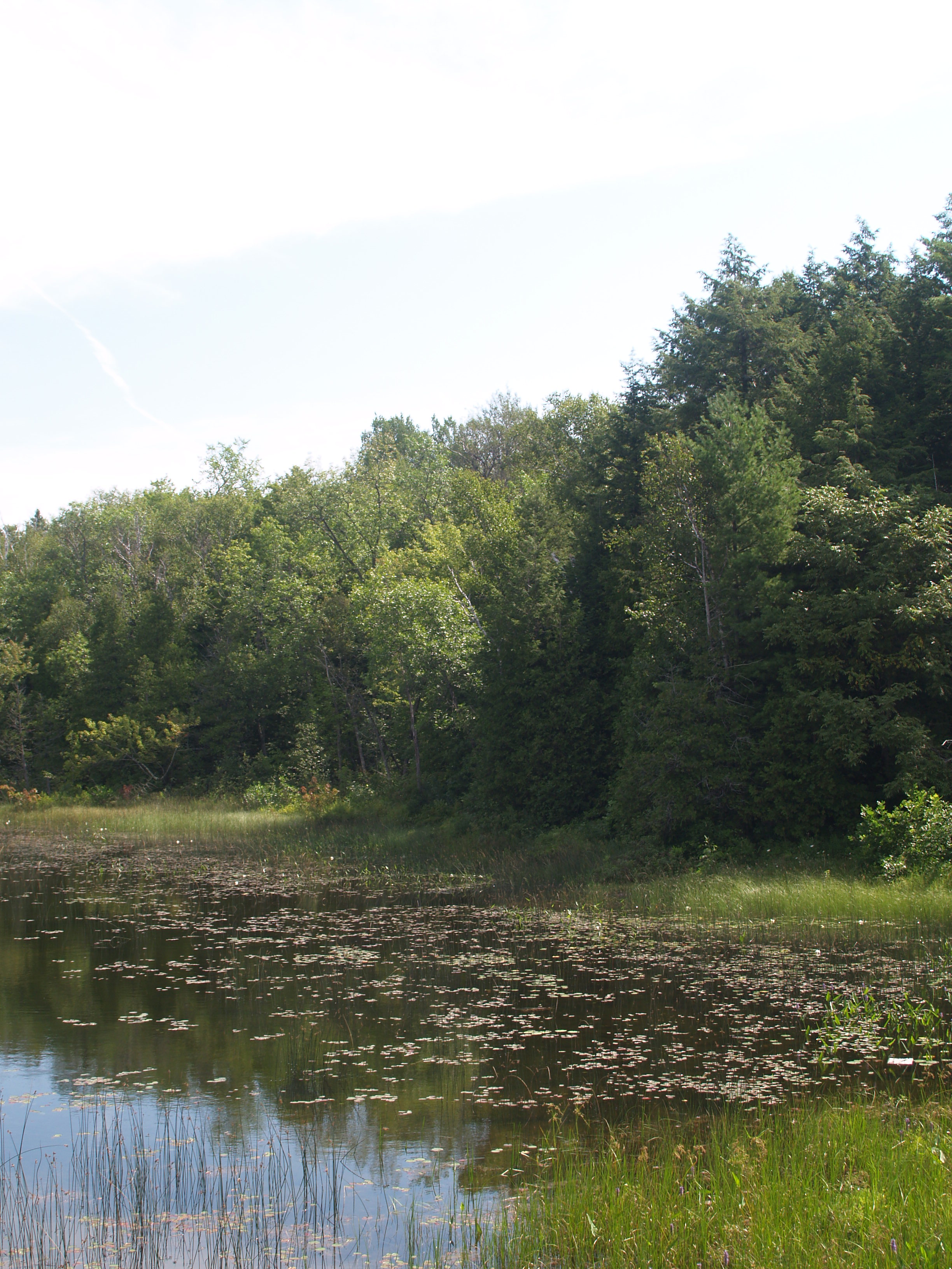 A classic muskeg in the Canadian Shield of southern Ontario